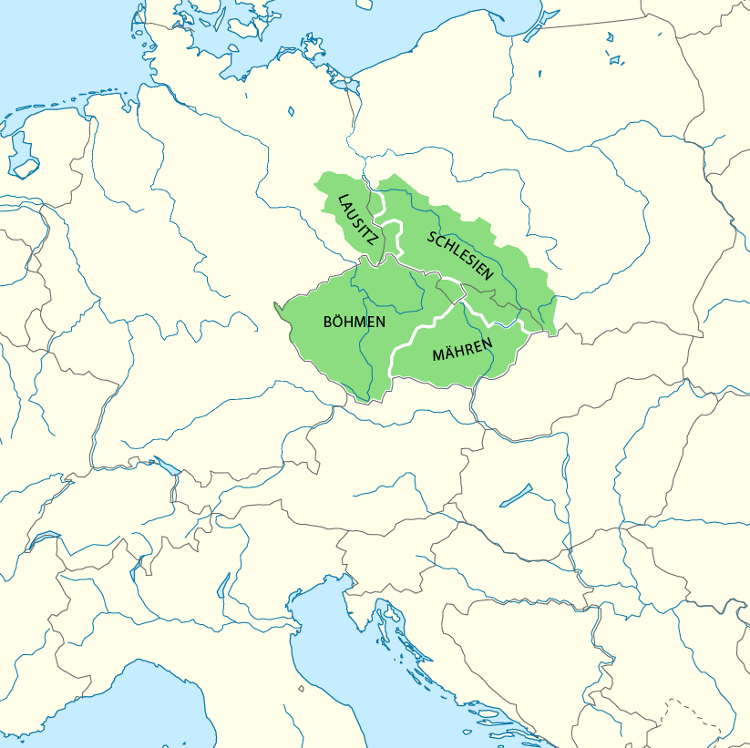 This file shows the extent of the Bohemian crown lands 1335-1635/1740.